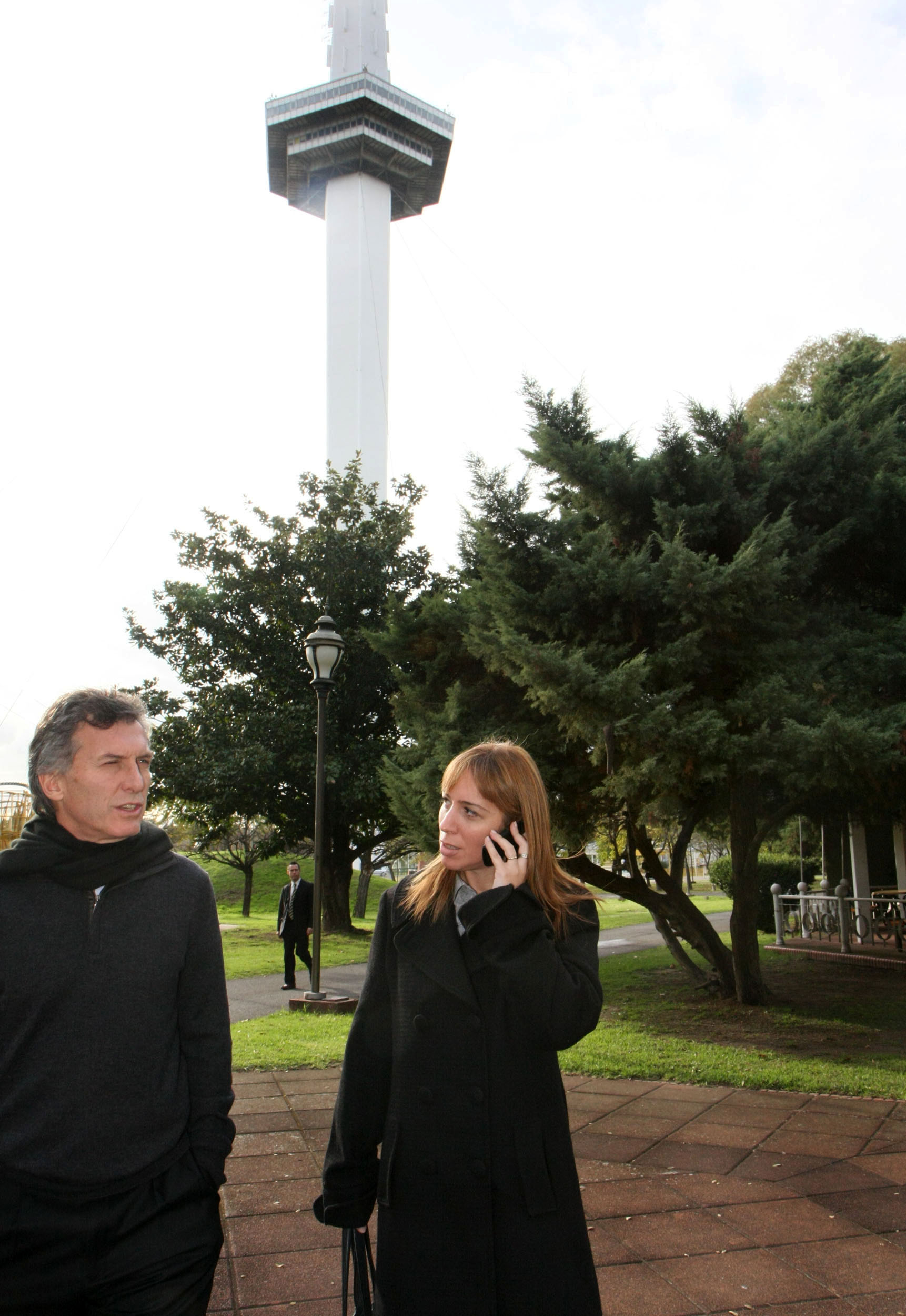 Buenos Aires Mayor Mauricio Macri and the then-Minister of Social Development, María Eugenia Vidal, tour the defunct 'Parque de la Ciudad' amusement park; the park operated between 1982 and 2003. Photo: Sandra Hernandez-gv/GCBA.